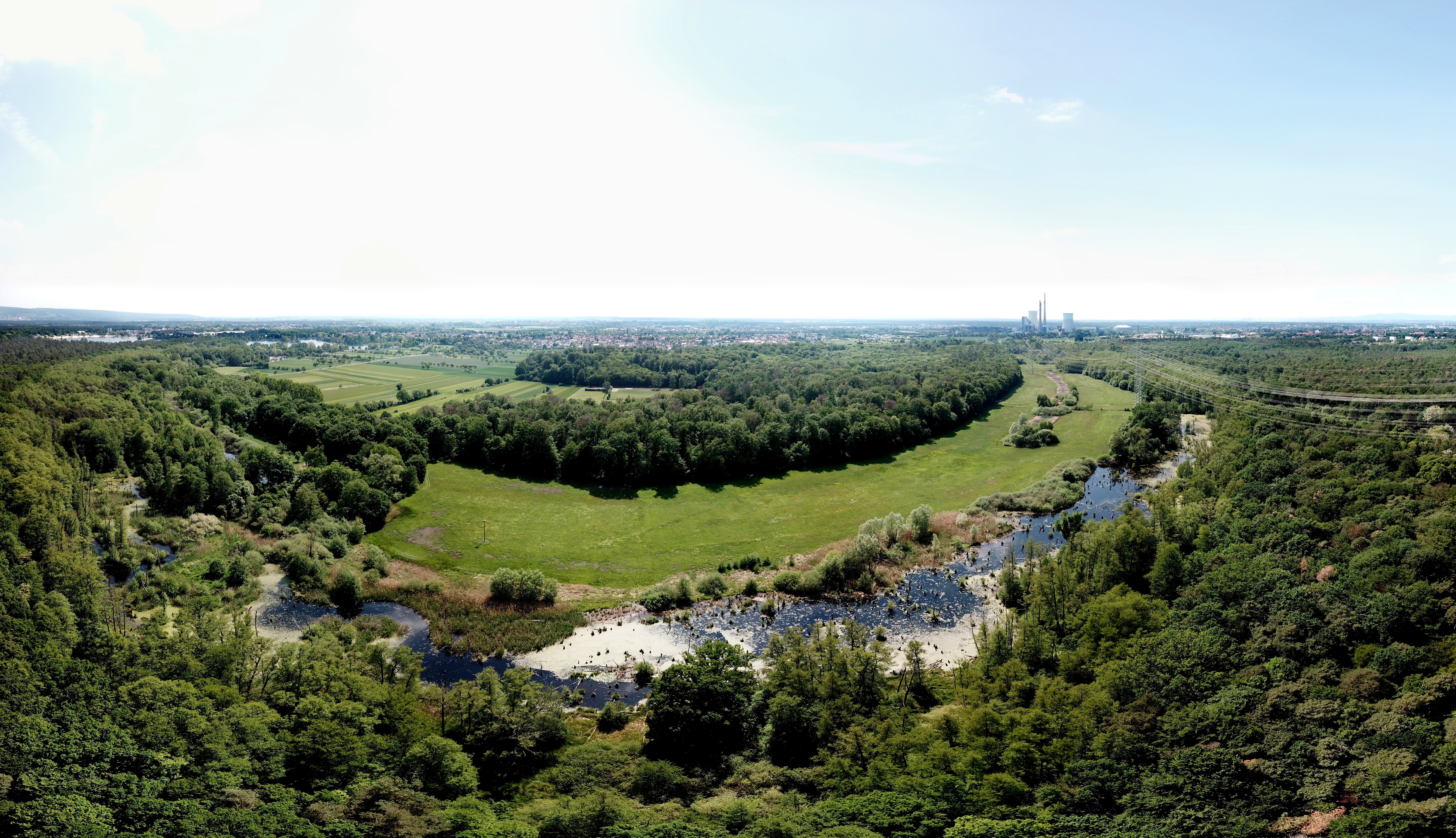 (NSG:HE-1435060)_Schifflache bei Großauheim, Lake "Schifflache" close to Großauheim, total view from the air